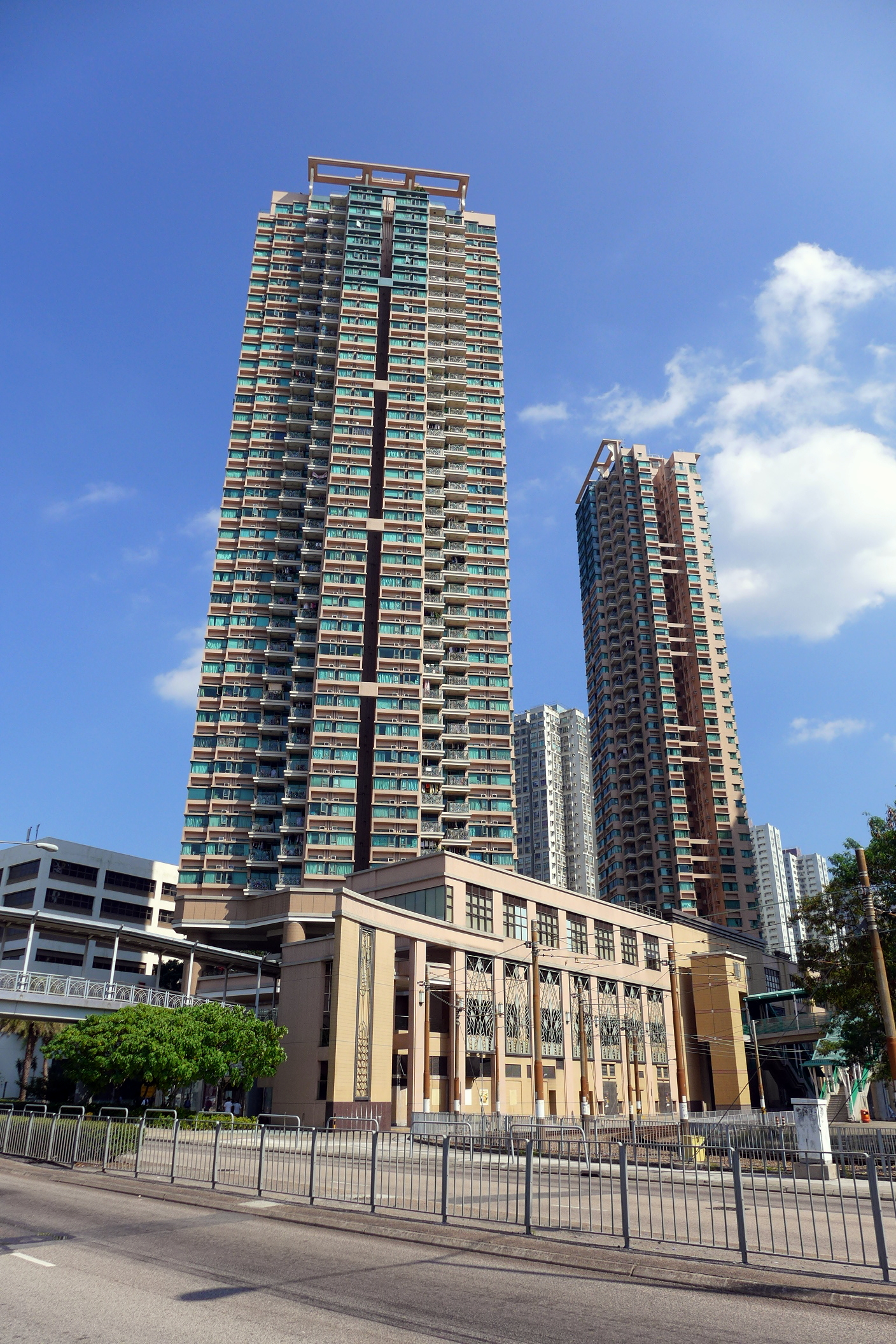 Oceania Heights, Tuen Mun